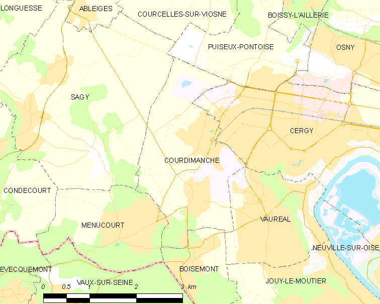 Map of French municipality Courdimanche